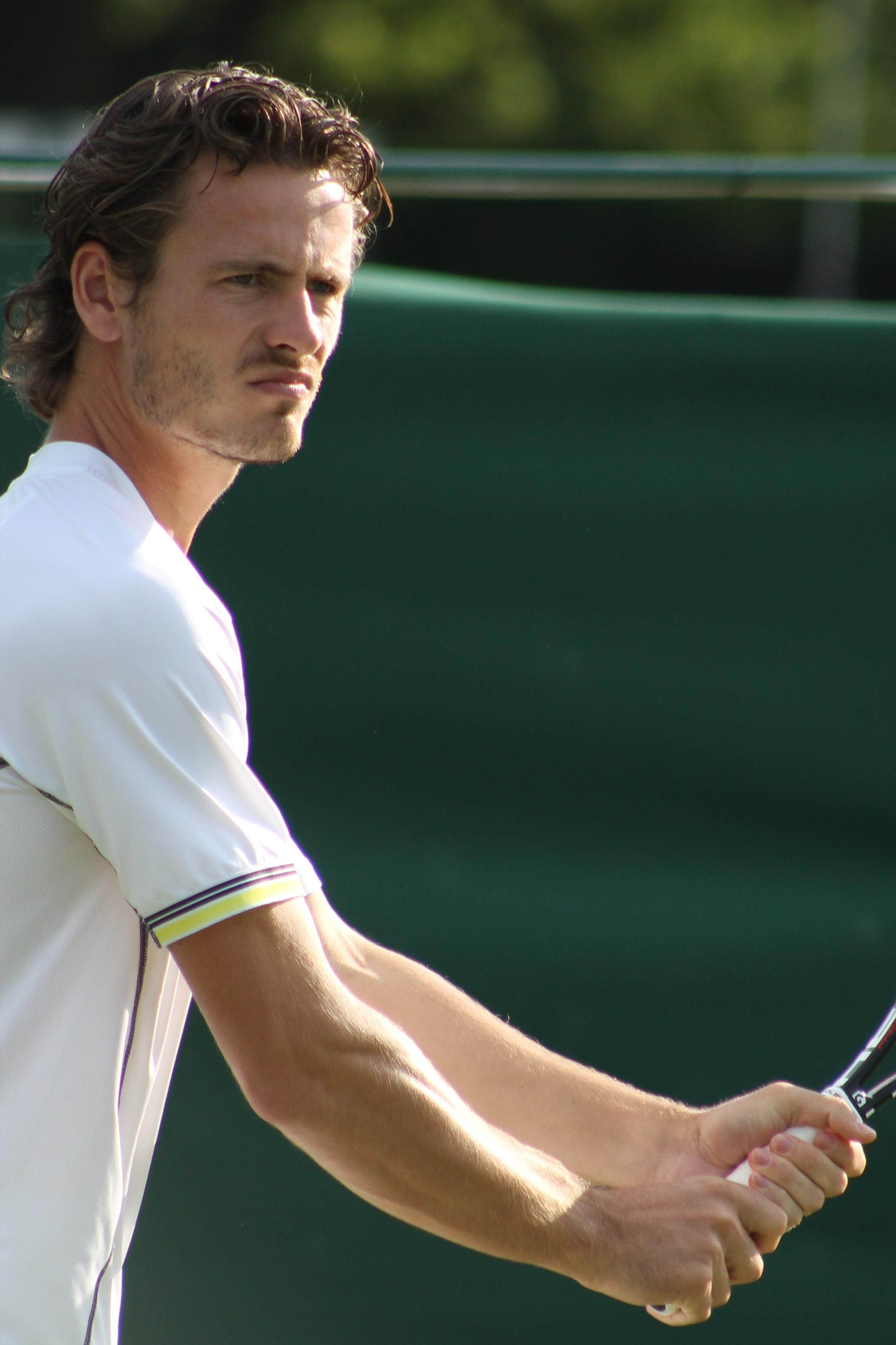 Koolhof WMQ15 (2)